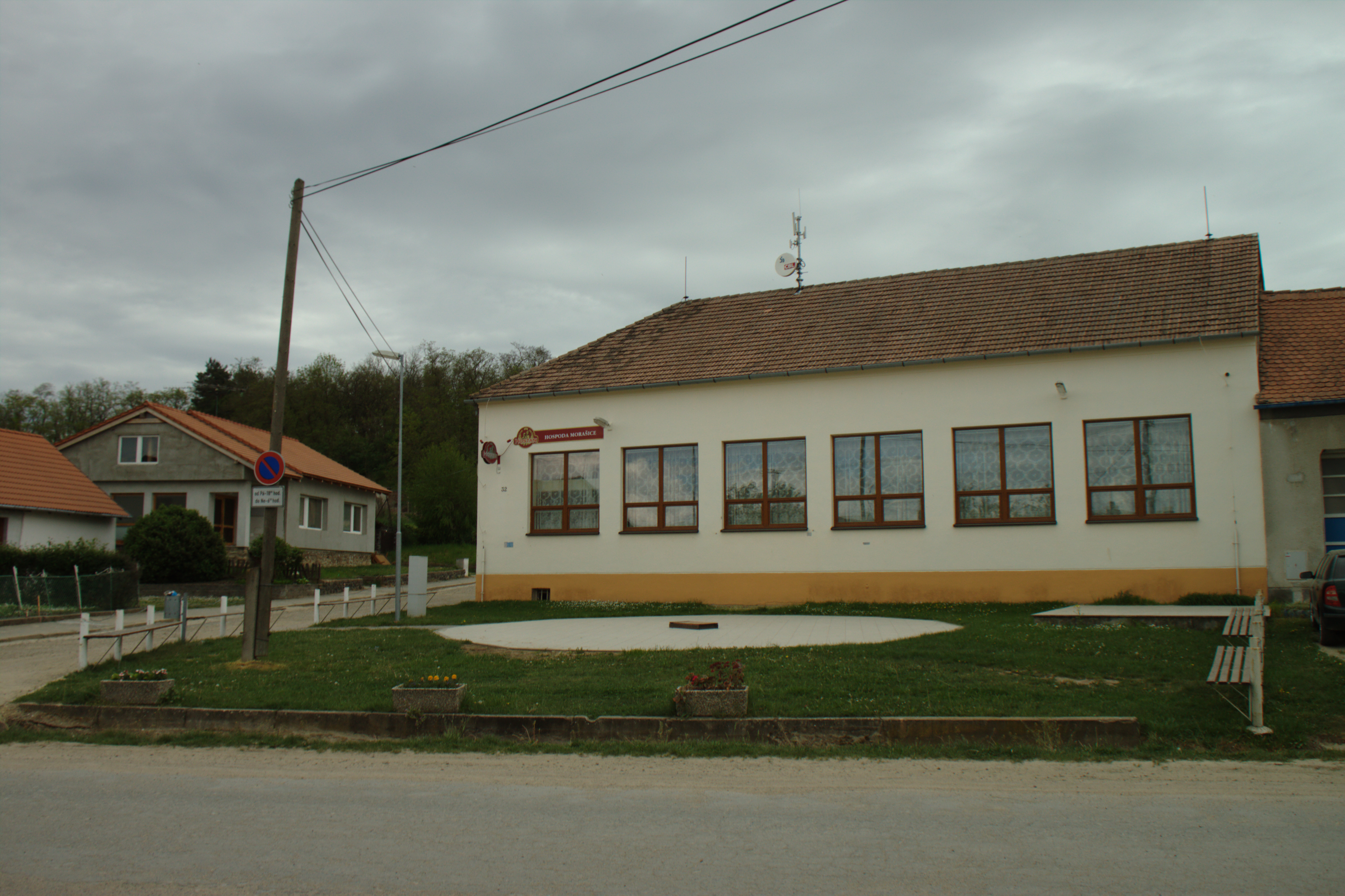 A pub in the village of Morašice in South Moravian Region, CZ